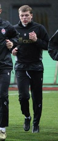 Oleksiy Hai, midfielder for FC Shakhtar Donetsk